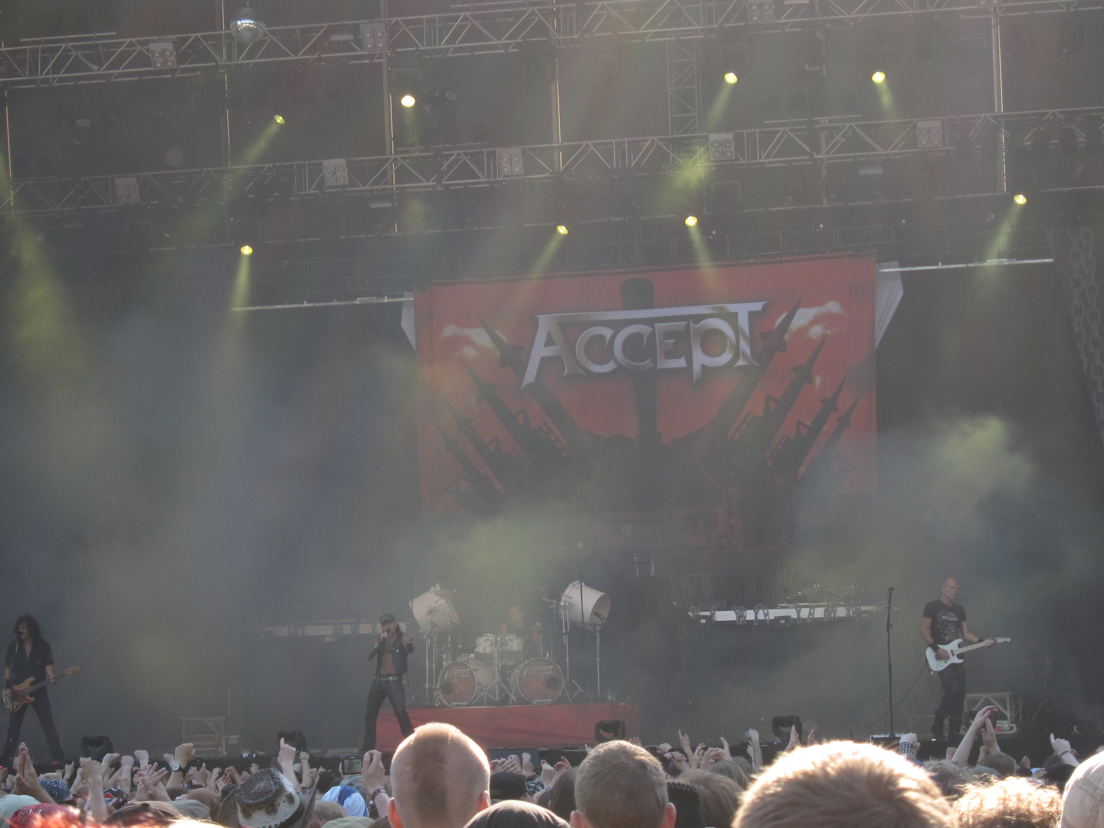 Accept performing at the Sauna Open Air Metal Festival in Tampere, Finland.